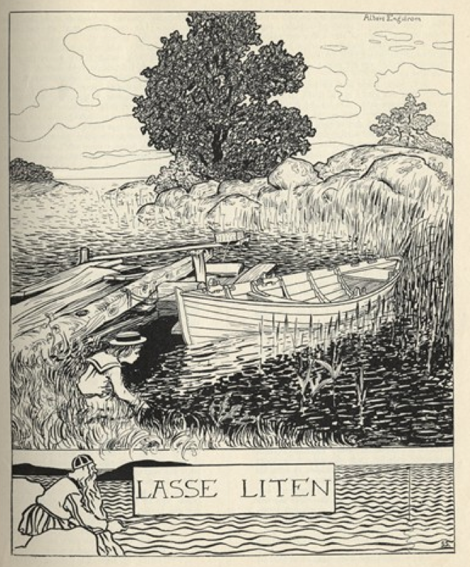 Scanned picture by Albert Engström from the book "Läsning för barn" 1903.